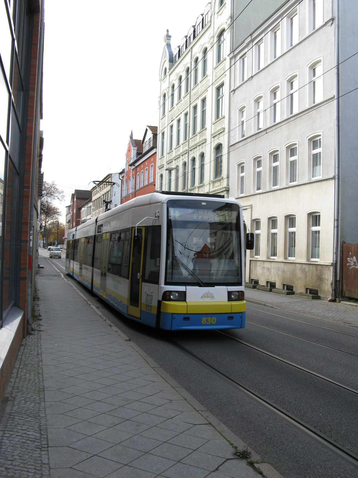 Tram of Line 4 to the square Platz der Freiheit in the street Goethestraße in Schwerin, Mecklenburg-Vorpommern, Germany